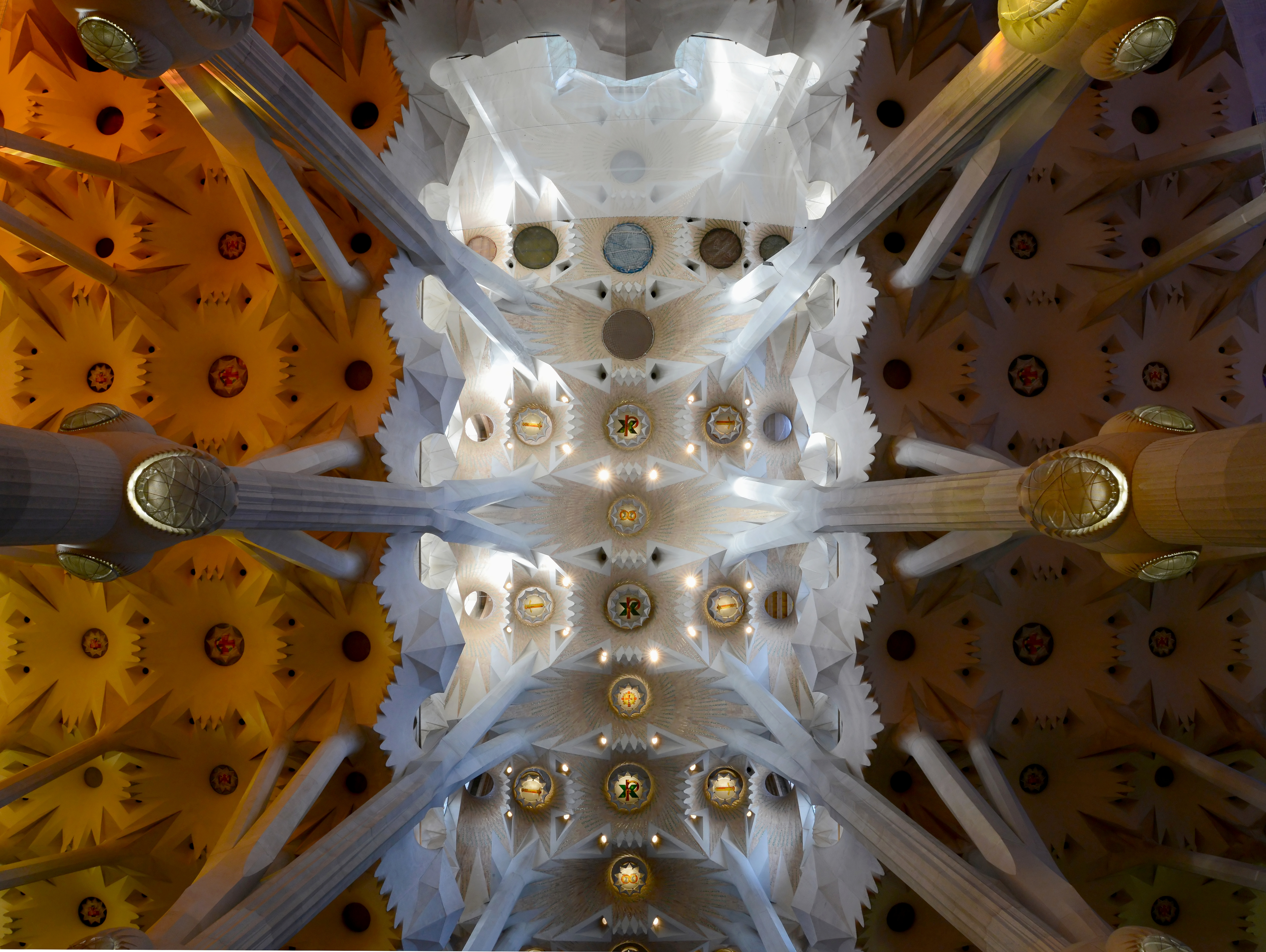 The ceiling of Sagrada Familia Cathedral, Barcelona, Spain